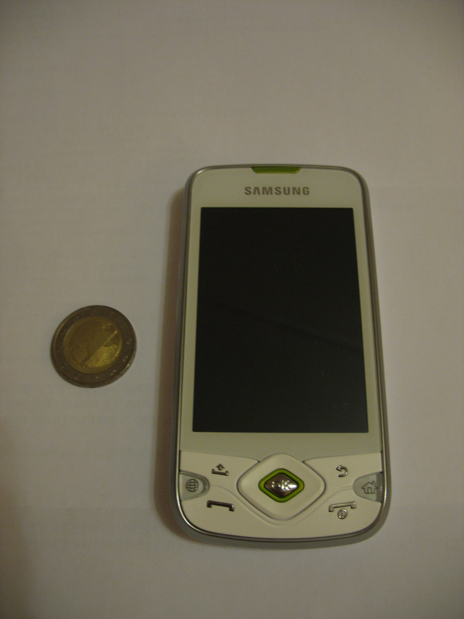 Samsung Galaxy Spica i5700 in white, compared to a 2 Euro Coin